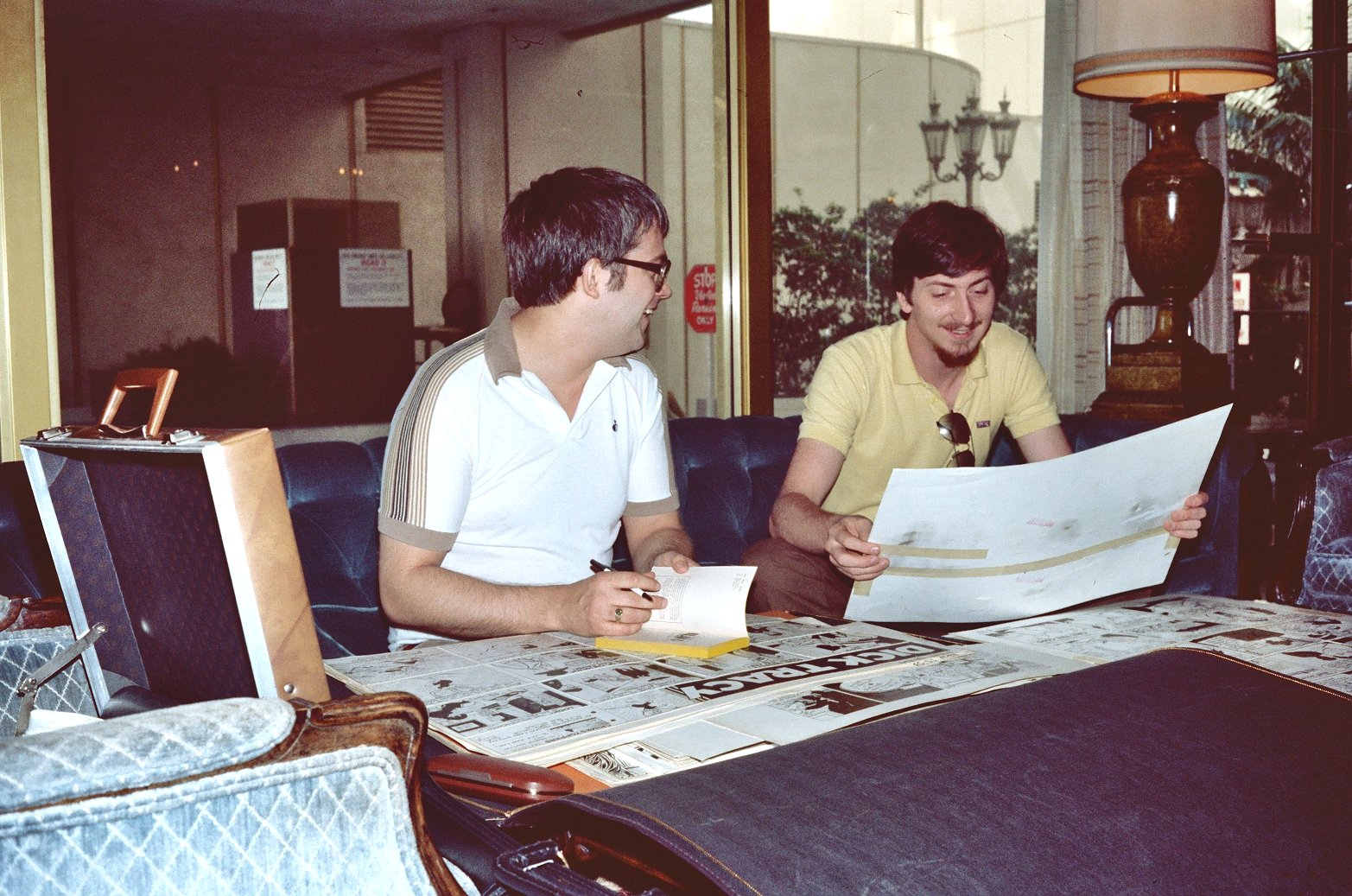 1982 San Diego Comic-Con International. Scanned from the original 35MM film negative. NOTE: Permission granted to copy, publish, broadcast or post any of my photos, but please credit "photo by Alan Light" if you can. Thanks.